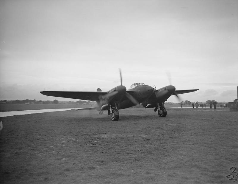 Royal Air Force 1939-1945- Fighter Command One of the first Mosquito II night-fighters, seen after a demonstration flight during a visit by the Duke of Kent to the de Havilland plant at Hatfield in November 1941 The nose-mounted transmitter aerial and wing-mounted receiver aerials for the aircraft's AI Mk IV radar are visible.